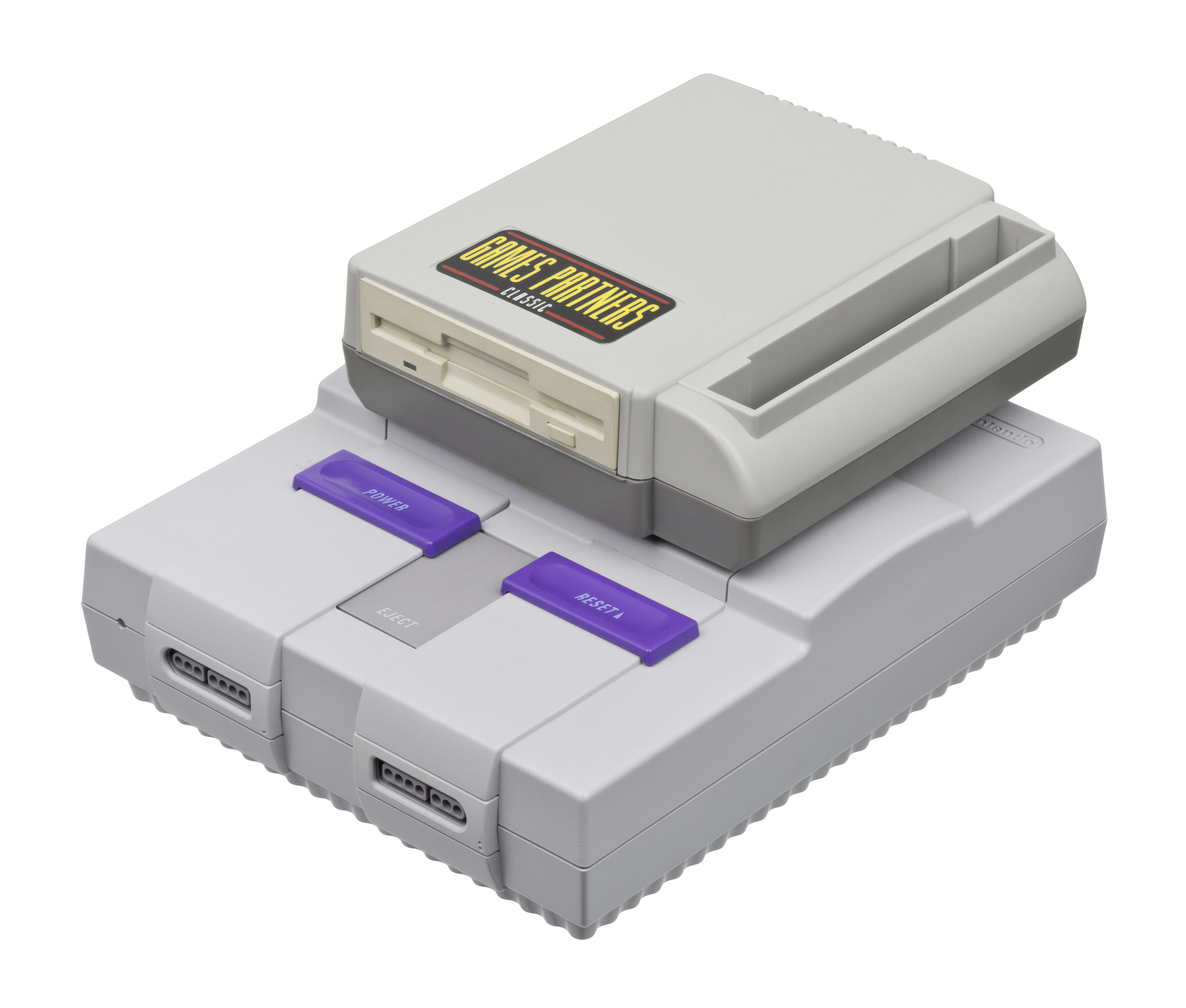 The Bung Game Partners Classic, a backup device for the Super Nintendo video game console. This backup device allowed users copy game cartridges to floppy disk and run games from them. This device also appeared elsewhere, where it was known by other names like the Professor SF.